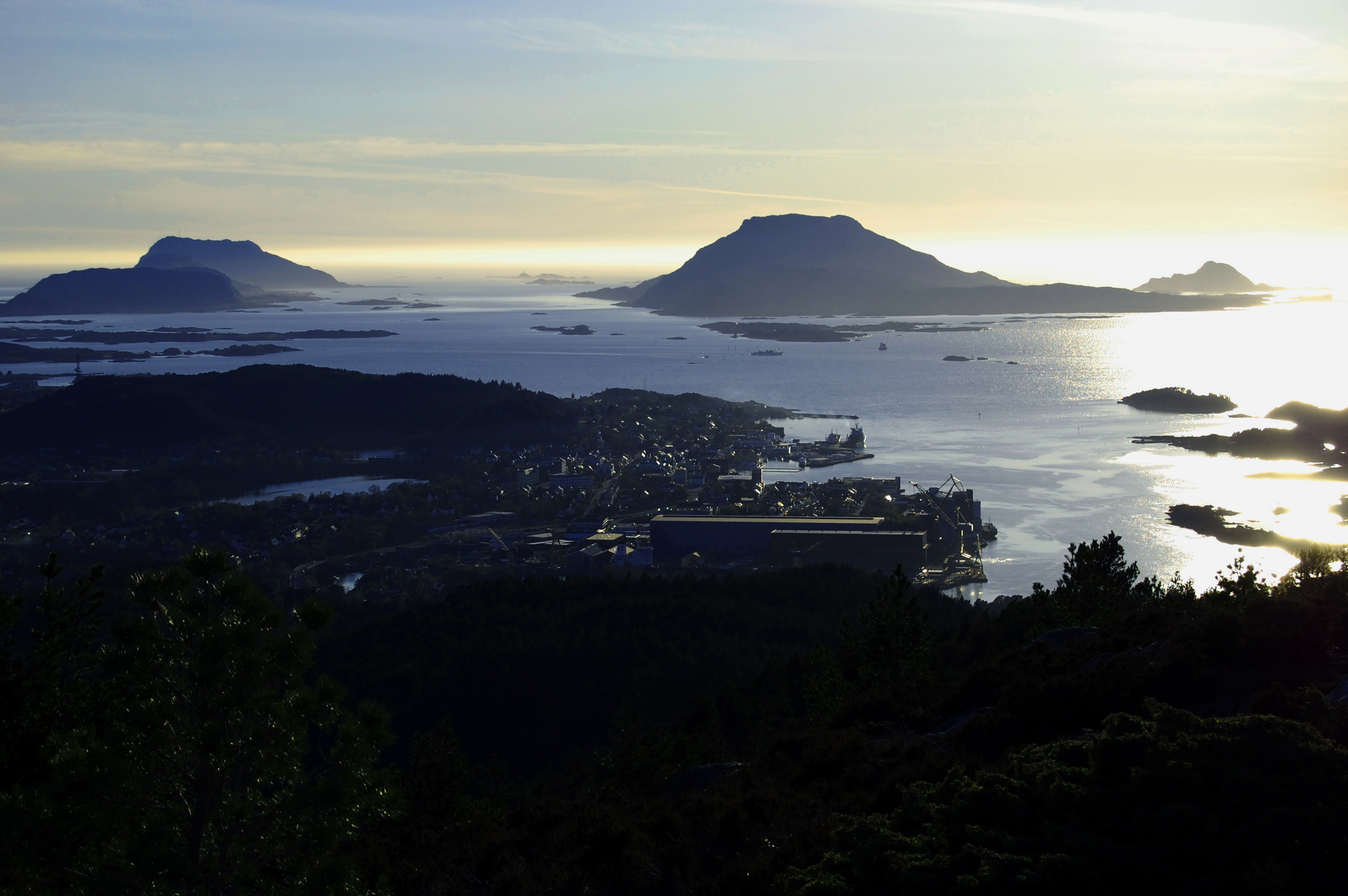 Florø in Flora, Sogn og Fjordane, Norway